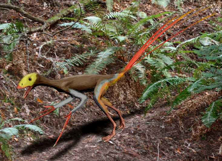 Epidexipteryx hui, a scansiopterygid from the Late Jurassic of China. Digital.